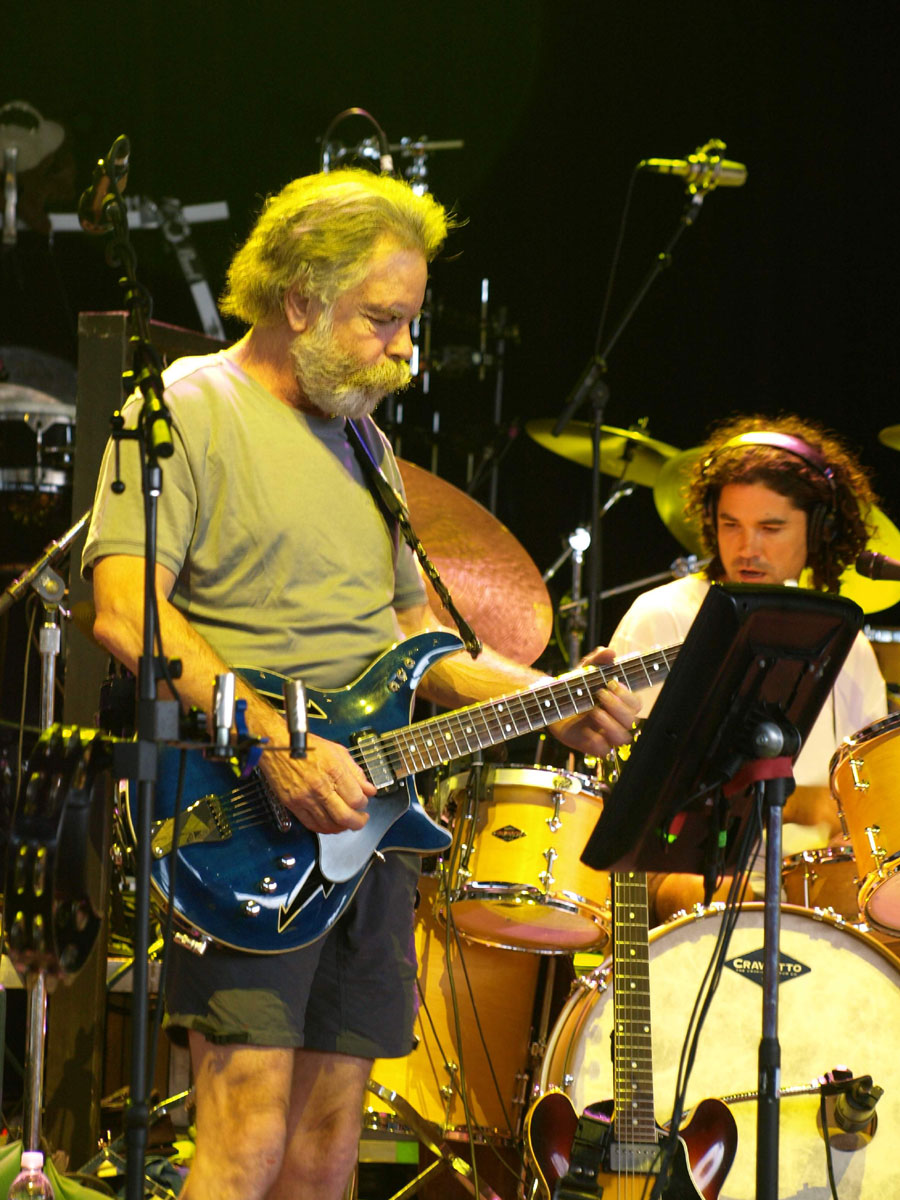 Bob Weir and Jay Lane performing with RatDog at the PNC Bank Arts Center in New Jersey, 2009.